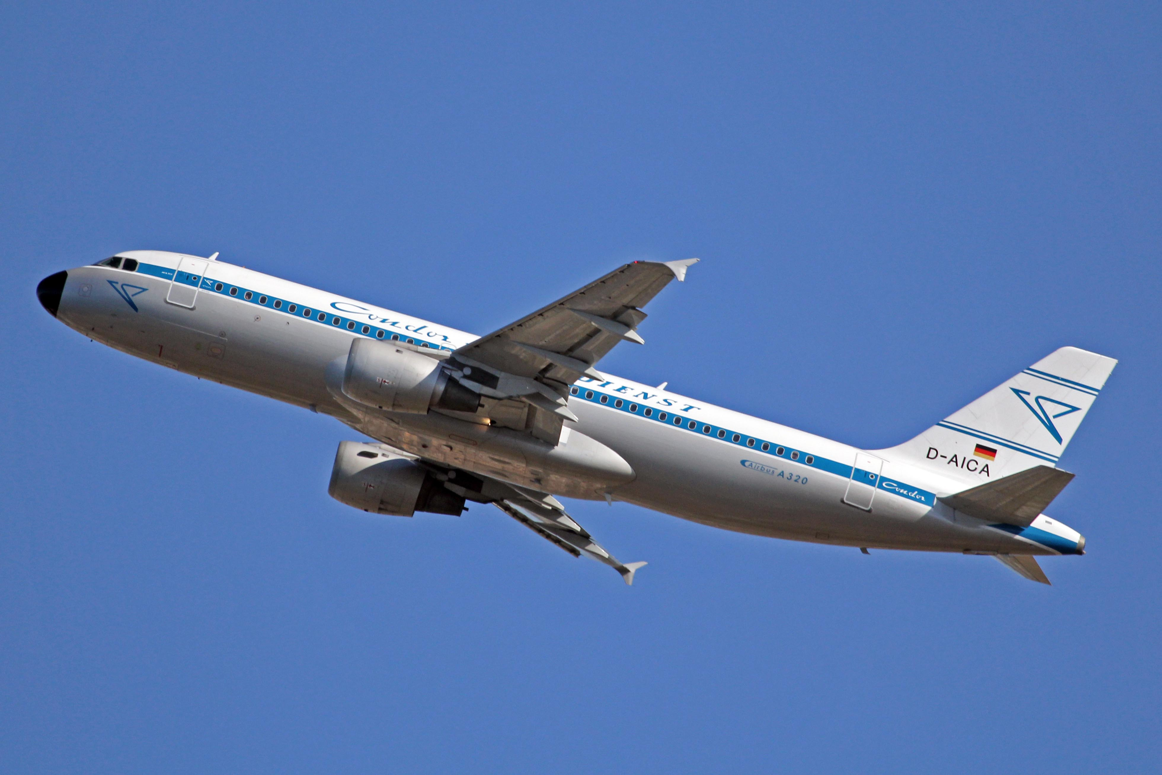 'Condor Flugdienst' retrojet.